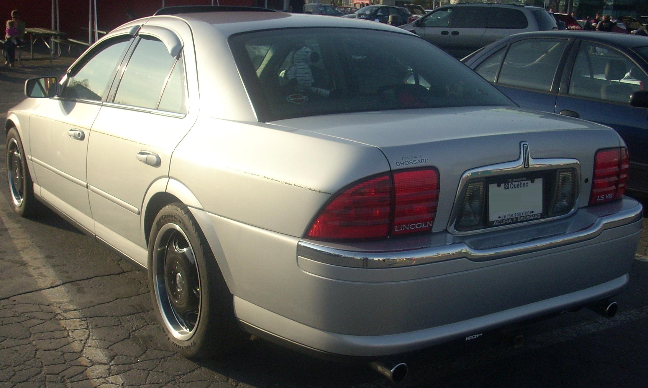 2000-2002 Lincoln LS photographed in Montreal, Quebec, Canada at Gibeau Orange Julep.